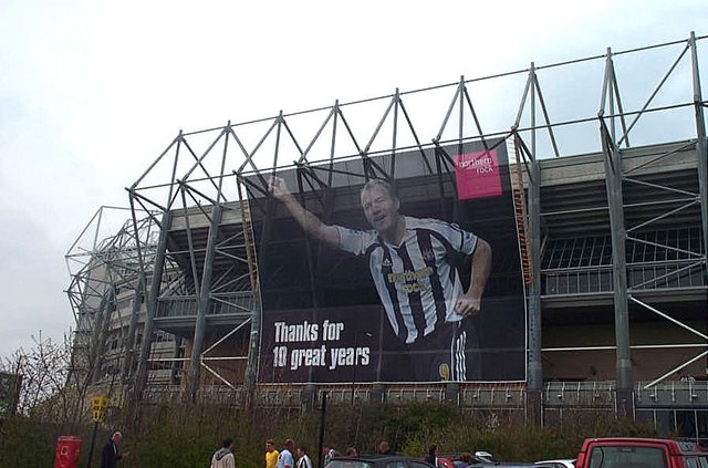 The SHEARER BANNER, St James's Park. This shot of the Shearer banner, taken from further away, gives more idea of its scale and size. See 222792 for close-up.